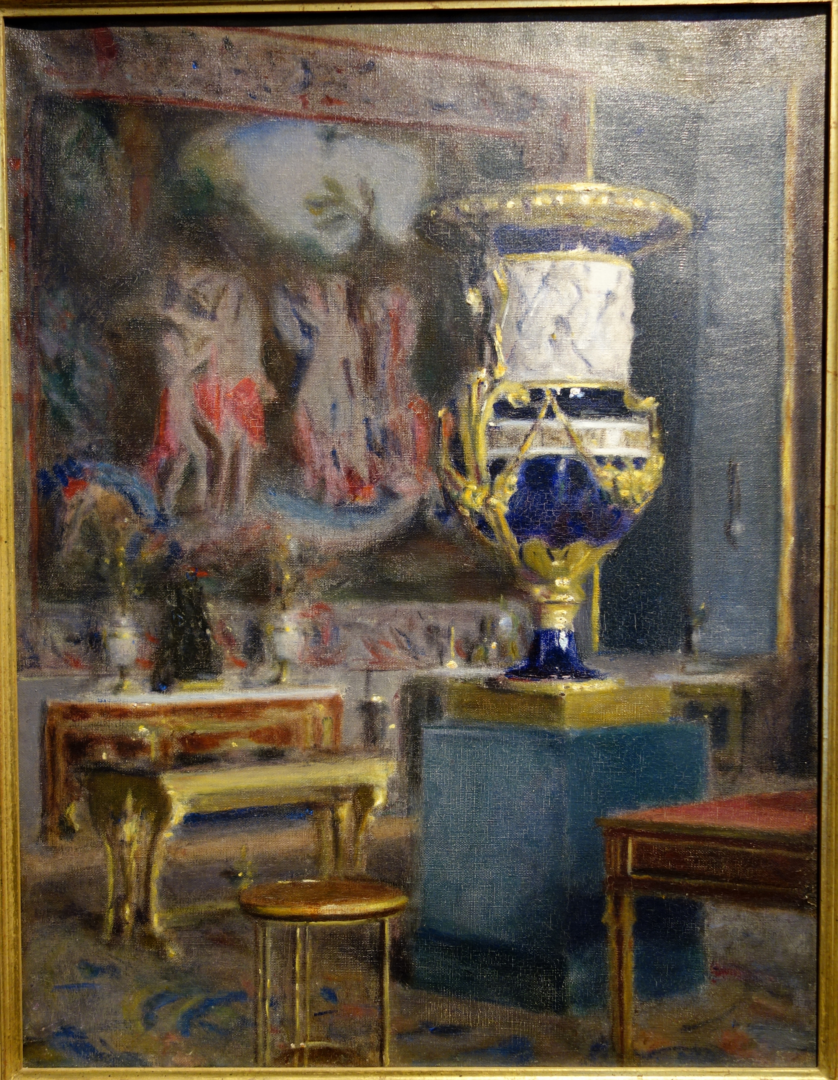 Exhibit in the Fitchburg Art Museum, Fitchburg, Massachusetts, USA. This artwork is in the public domain because the artist died more than 70 years ago.